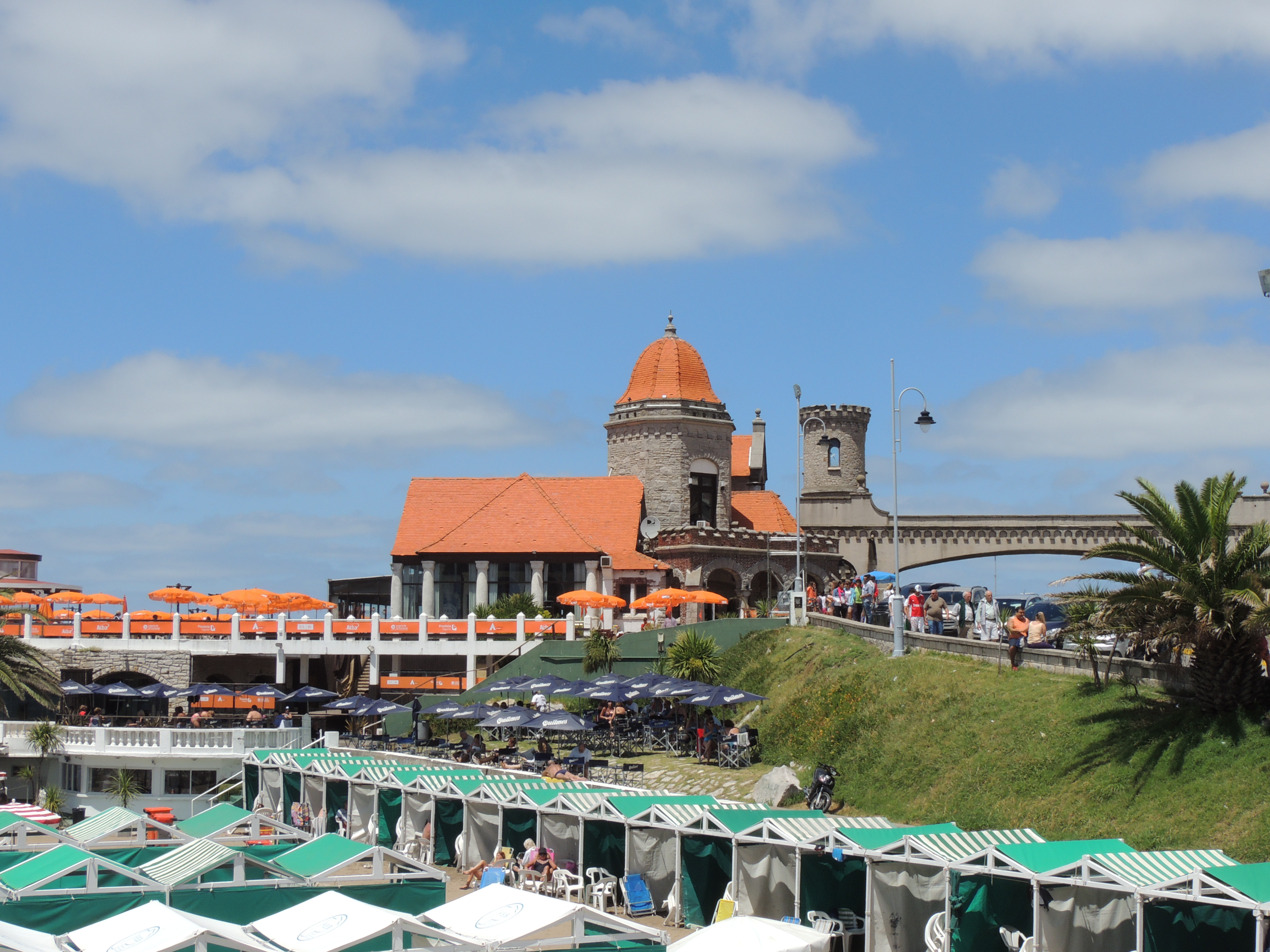 View of Mar del Plata, Argentina including Torreon del Monje as background, traditional postcard